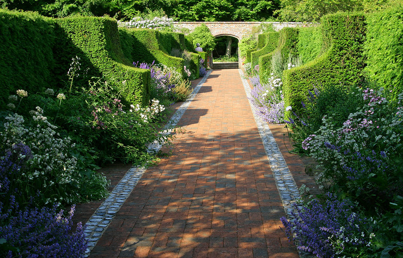 The Wormsley Estate walled garden